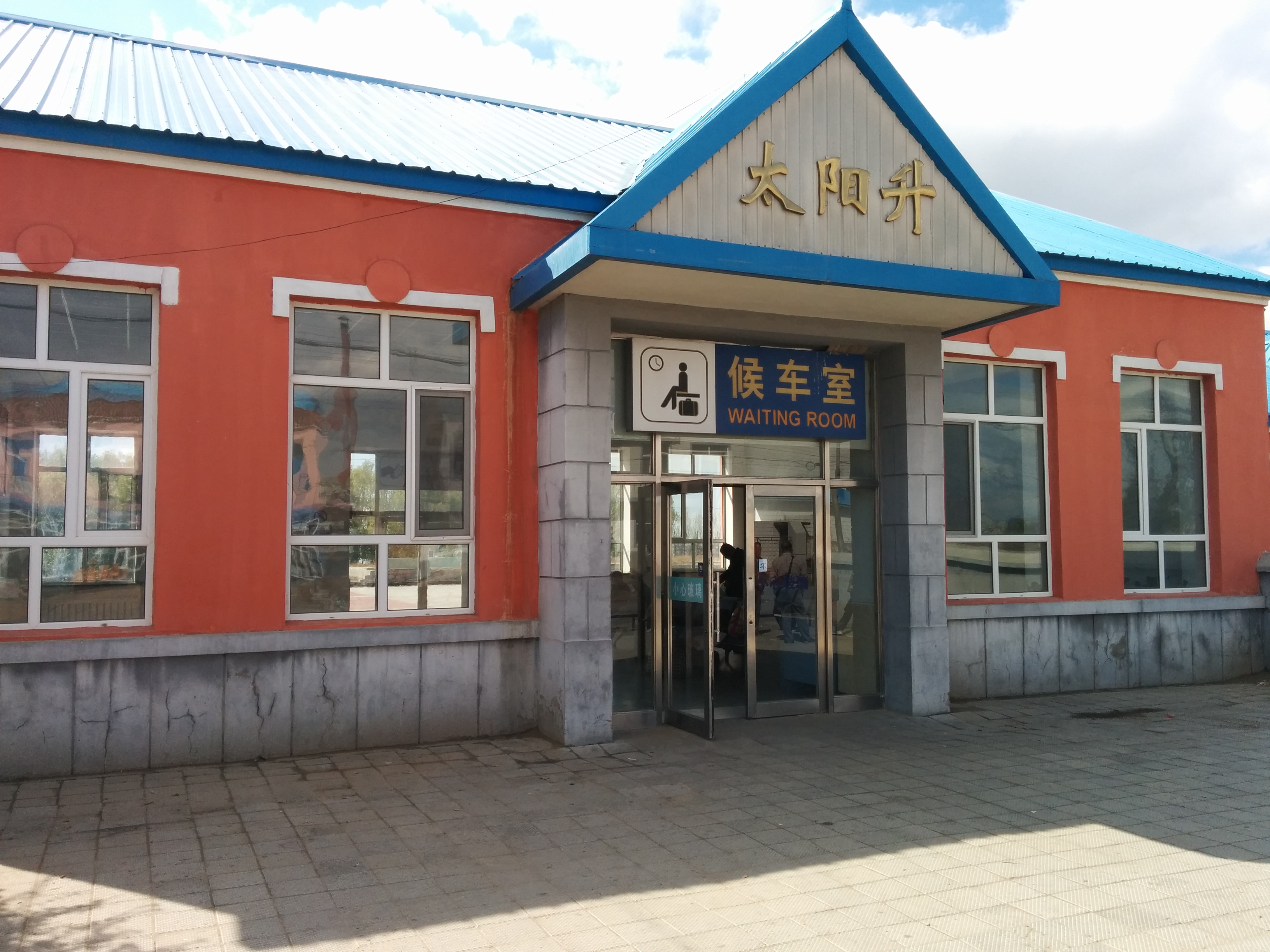 Taiyangsheng Railway Station